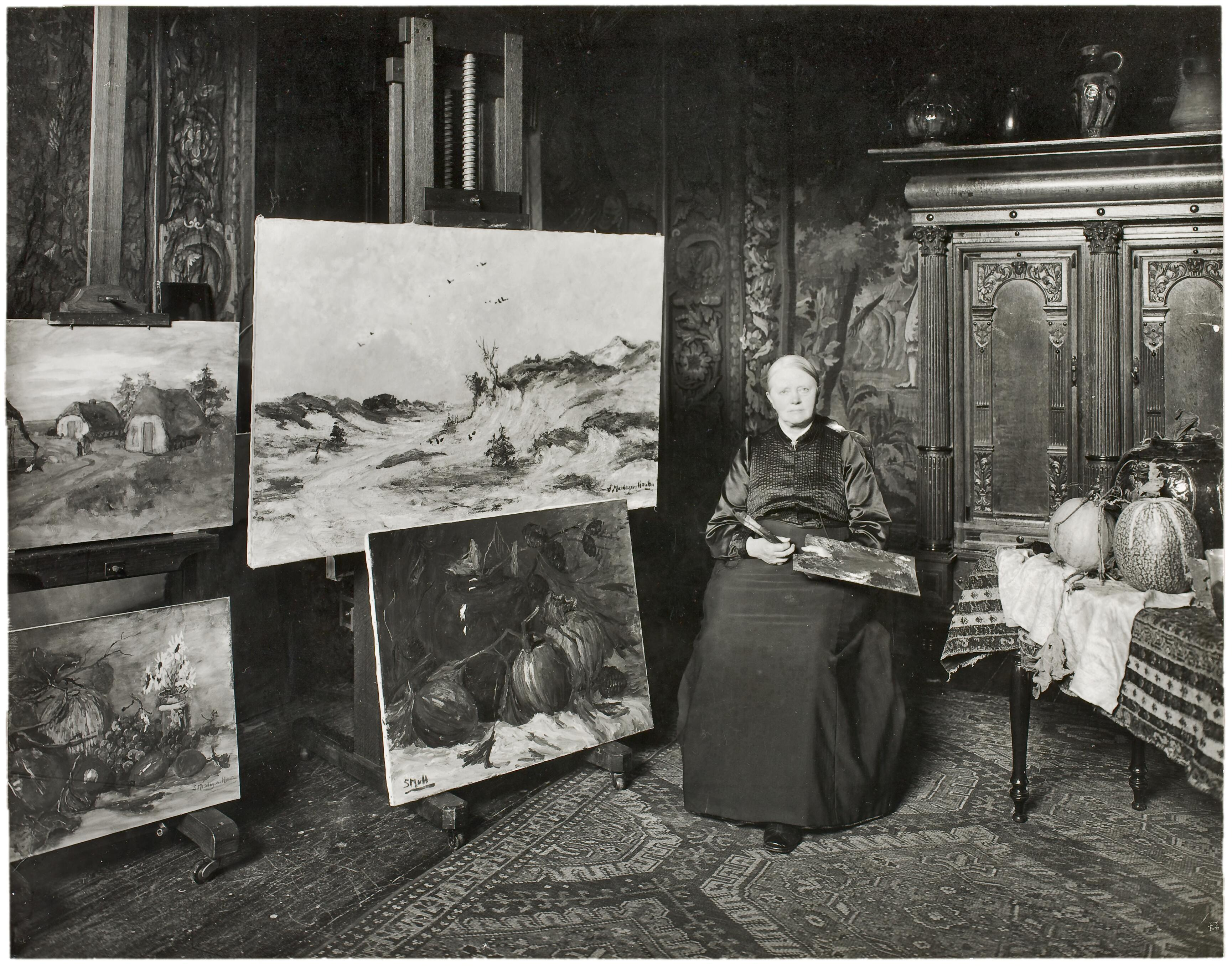 Portrait of the Dutch painter Sina Mesdag-van Houten (1834-1909)